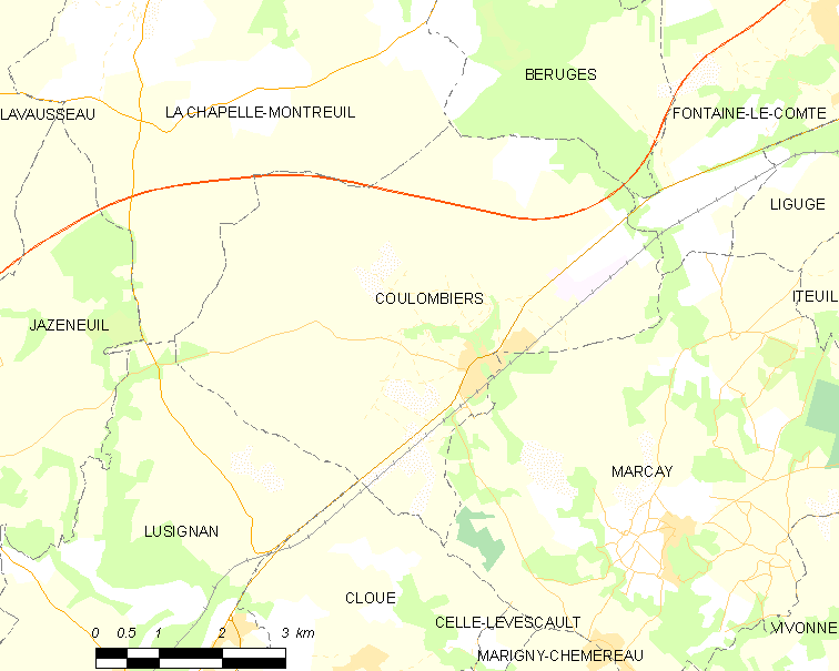 Map of French municipality Coulombiers